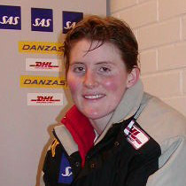 Canadian female ice hockey player Hayley Wickenheiser 2003. Photo by Jonny Smeds.